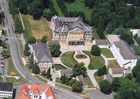 Körmend - castle, Hungary, aerialphotography